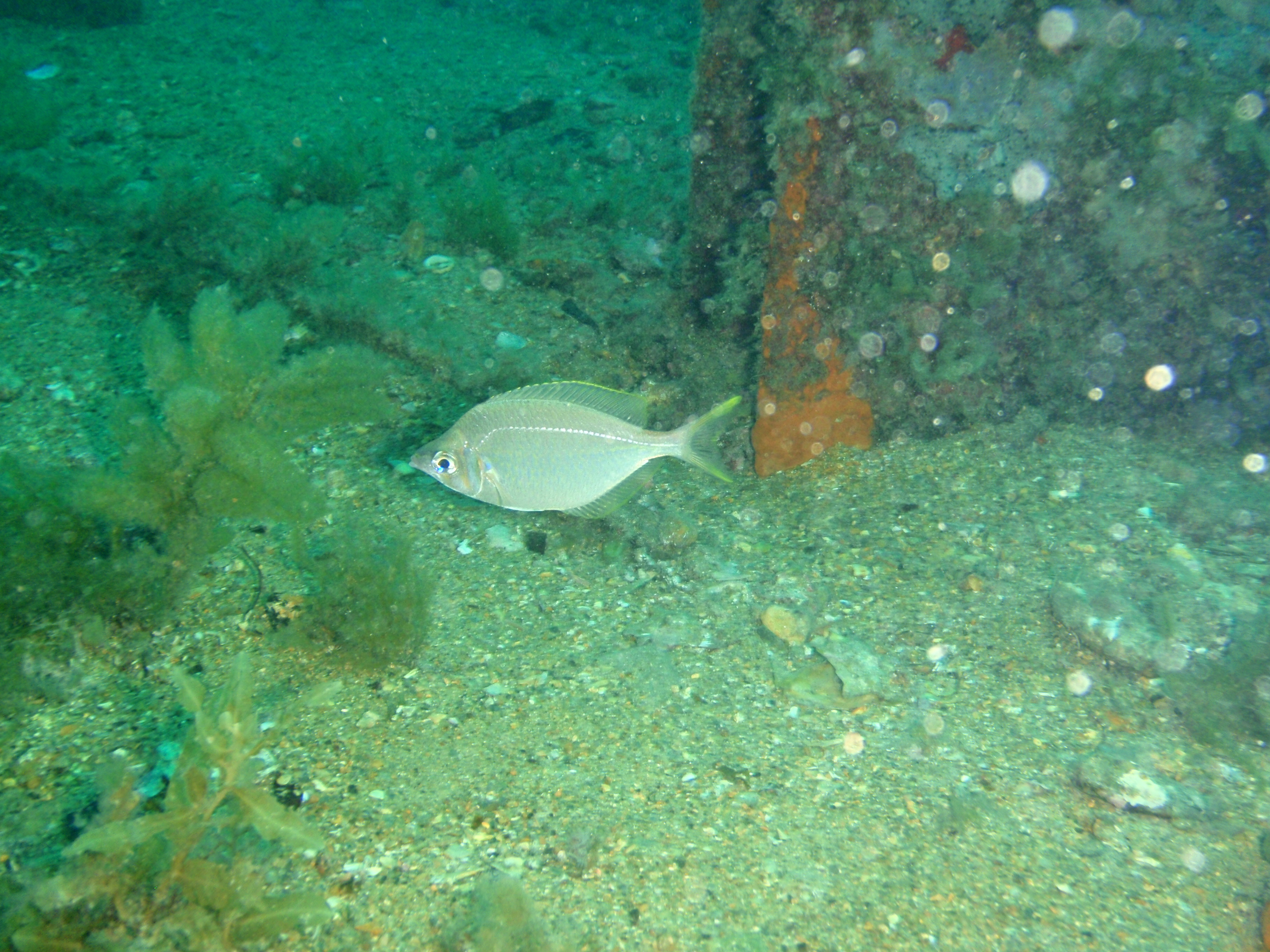 Silverbelly Parequula melbournensis at Rapid Bay Jetty, Gulf St Vincent, South Australia